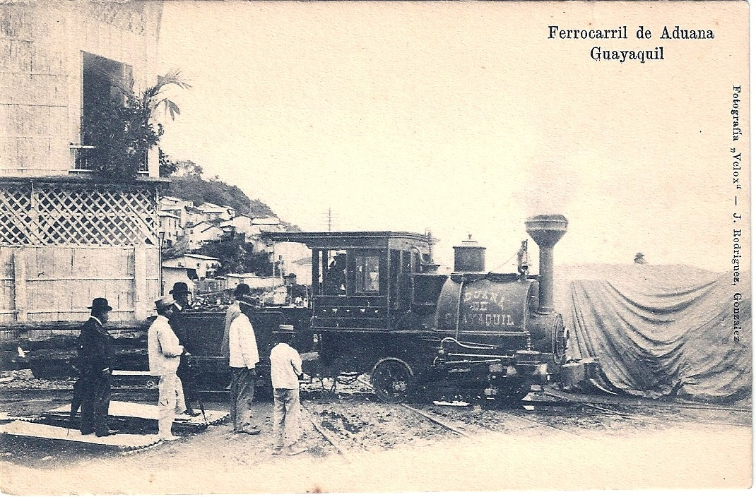 Old postcard, entitled "Railroad Customs. Guayaquil." It is a view of the pier or dock in the city of Guayaquil, in the Republic of Ecuador in South America. This postcard was printed between 1901 and 1905, by the procedure called collotype. In the photo we see a small steam engine, registered as number 2 of the company, "Aduana de Guayaquil."